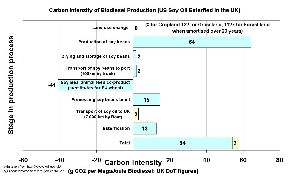 Excel Graph showing the Carbon Intensity of US Soy Biodiesel. Derived from information found in the UK crown copyright document.[1]